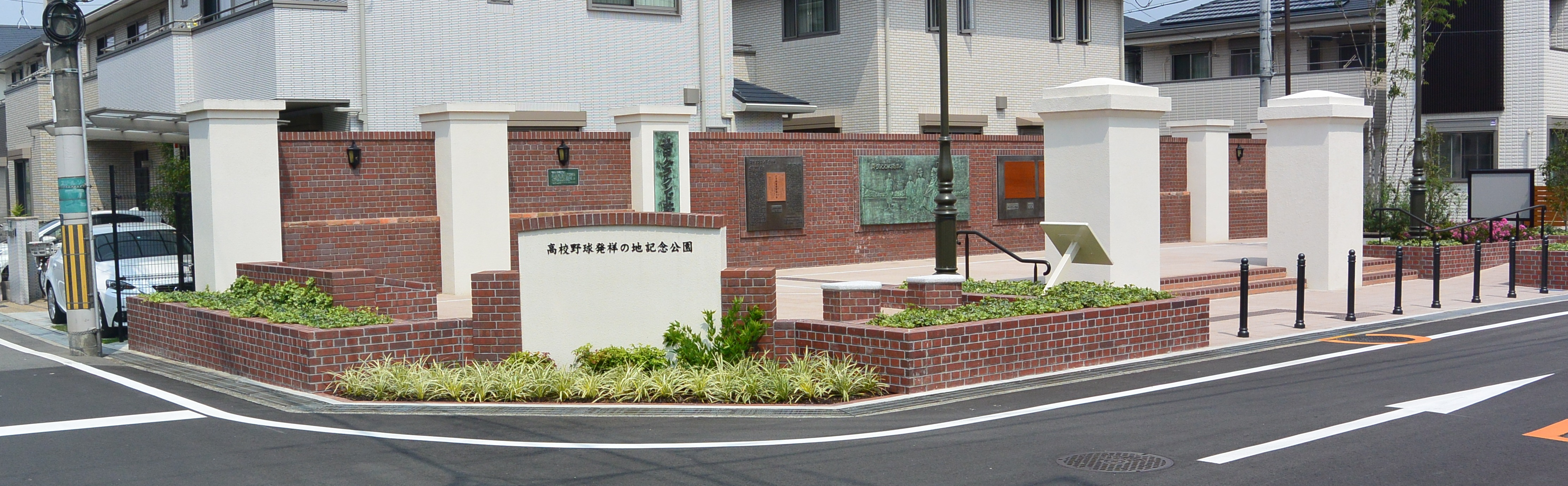 The monument of Toyonaka Ground, 1st high school baseball championship in Japan